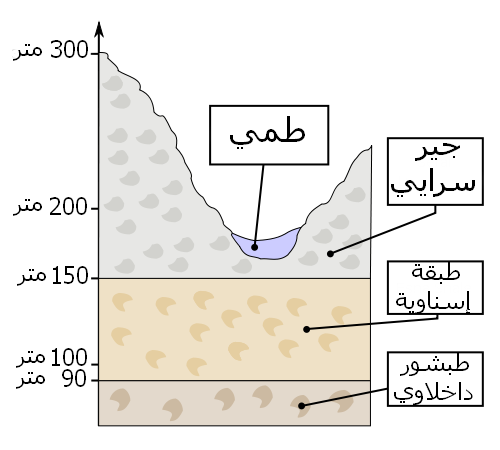 Valley of the Kings - geology stratification